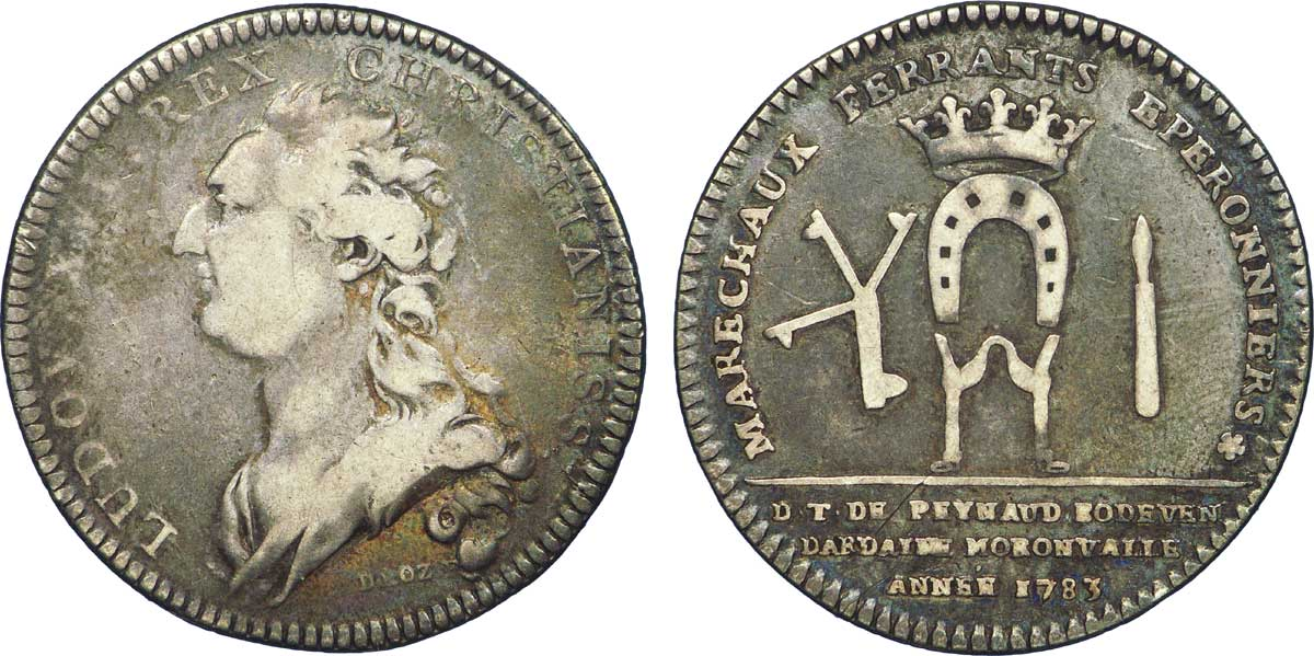 Jeton de la corporation des maréchaux-ferrants et éperonniers, 1783